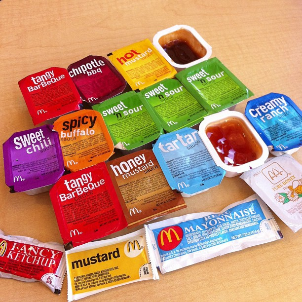 He asked which flavor sauce I'd like with our 20 mcnuggets. I said, one of each please.